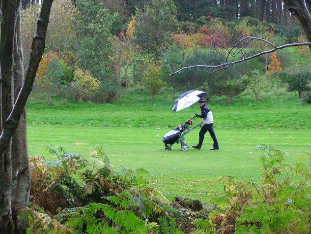 Golf in the rain Kippie Lodge Sports and Country Club golf course.